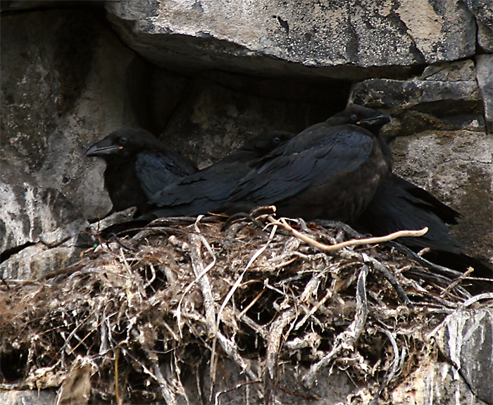 Ravens on nest, Iceland